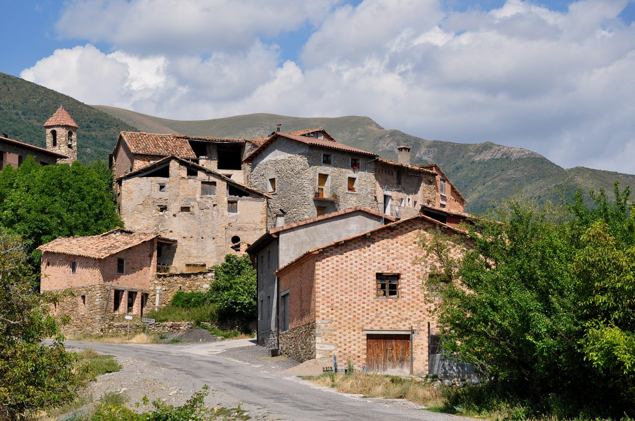 The village of Gotarta in the Pyrenees (municipality El Pont de Suert, district of Alta Ribagorça, Catalonia, Spain).